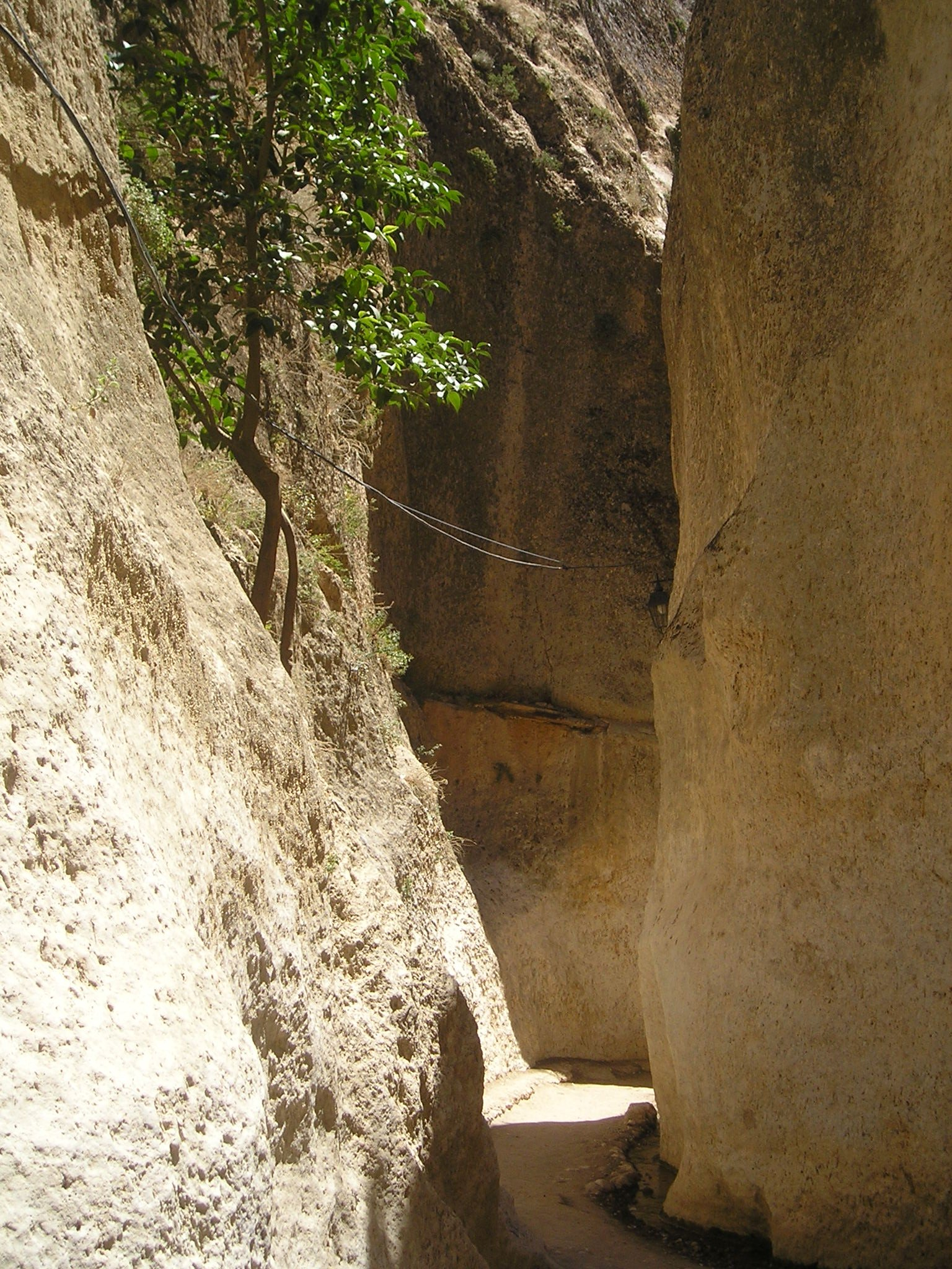 Maaloula, Syria - a part of the defile (gorge) where according to the legend St. Thecla escaped her persecutors.